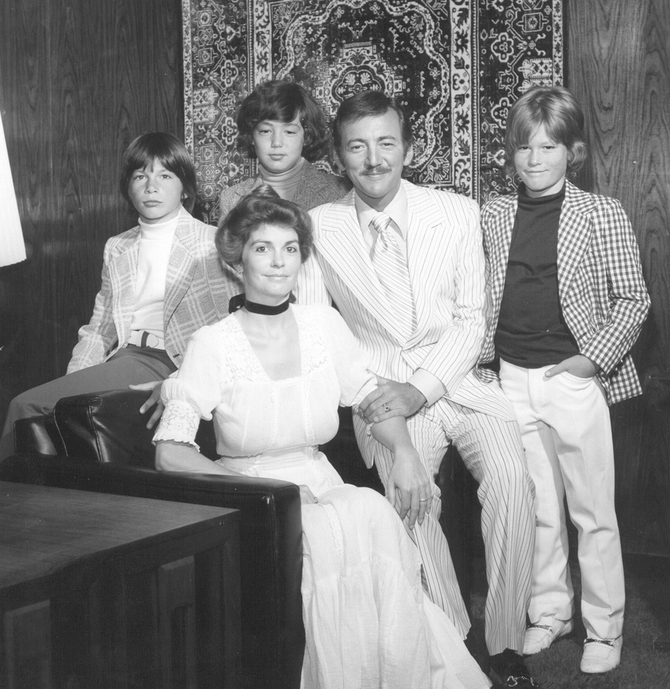 Bobby Darin and Andrea Yeager's wedding photo 1973: the actual wedding took place in Las Vegas, NV. Photo taken at the Hilton Hotel in Bobby's Dressing room.